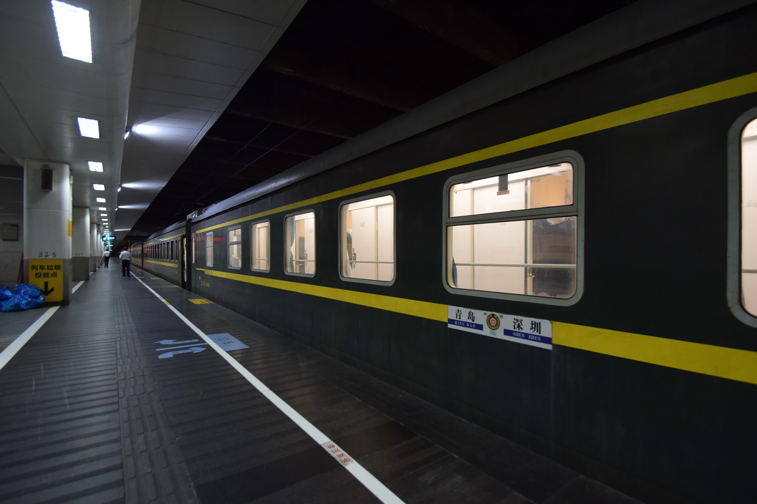 T397 train had just arrived at Shenzhen Railway Station and was stopping at platform 3.